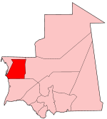 Map of Mauritania showing Inchiri region.